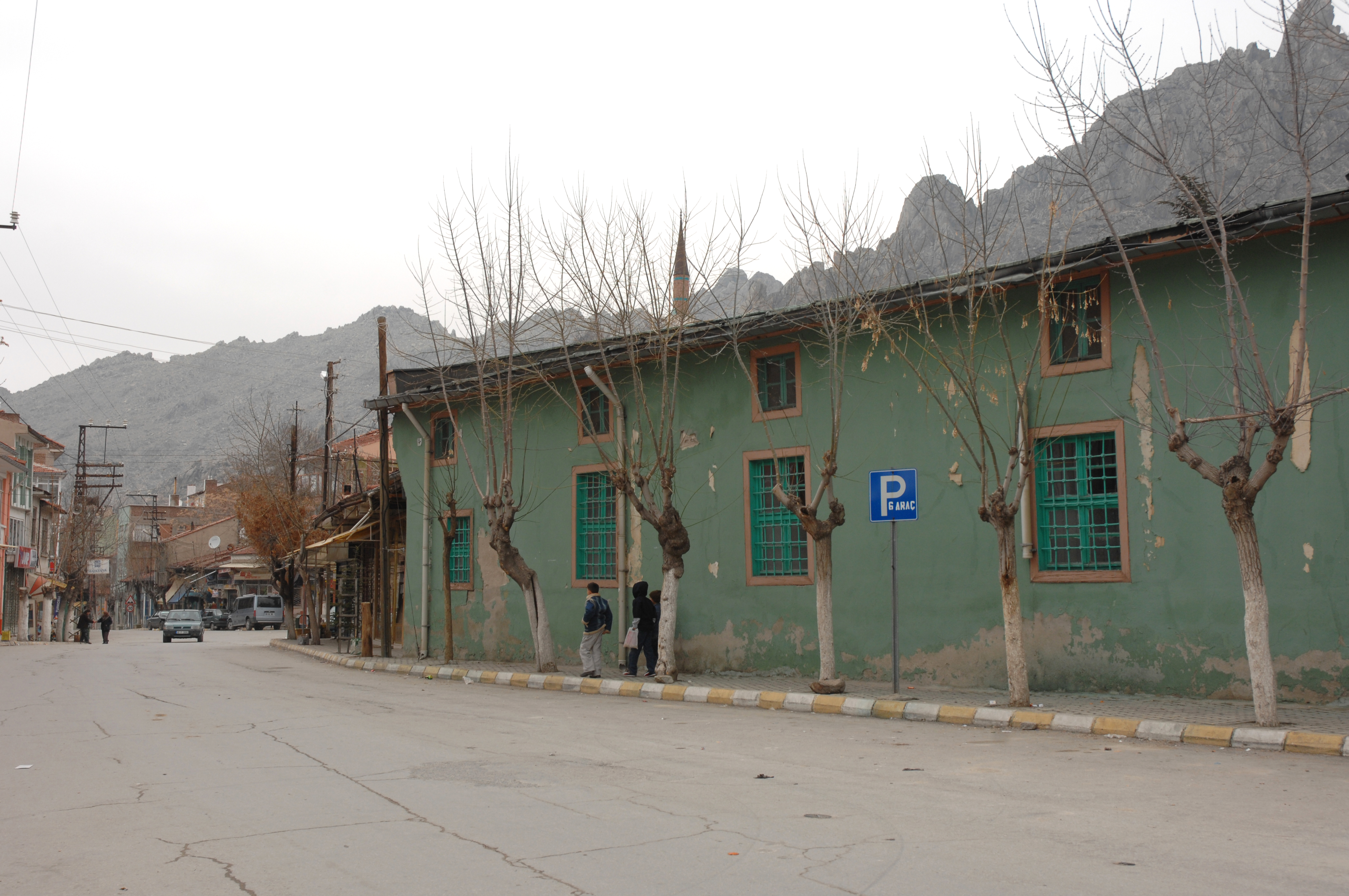 This being a somewhat older picture the paintwork may well have been redone. At a later visit there were some restorations going in in town.